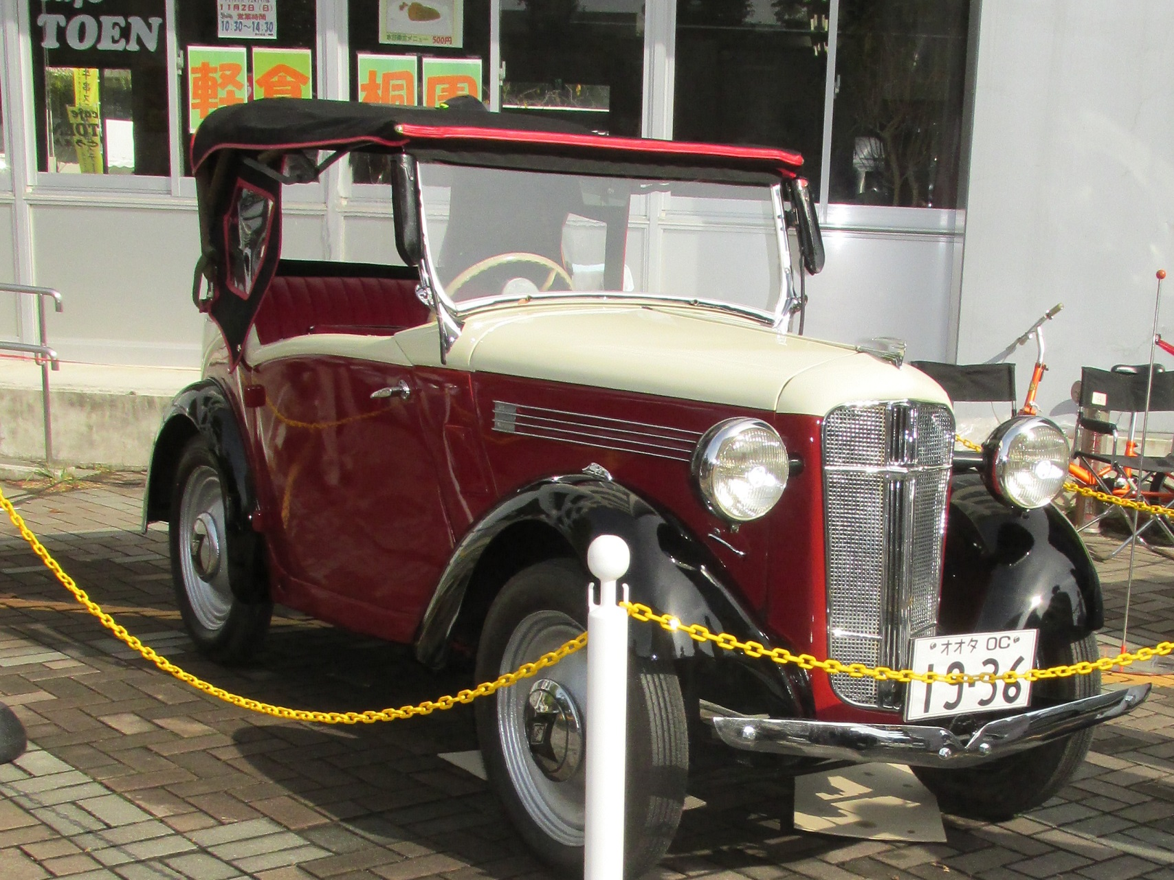 1936 Ohta Type OC Phaeton